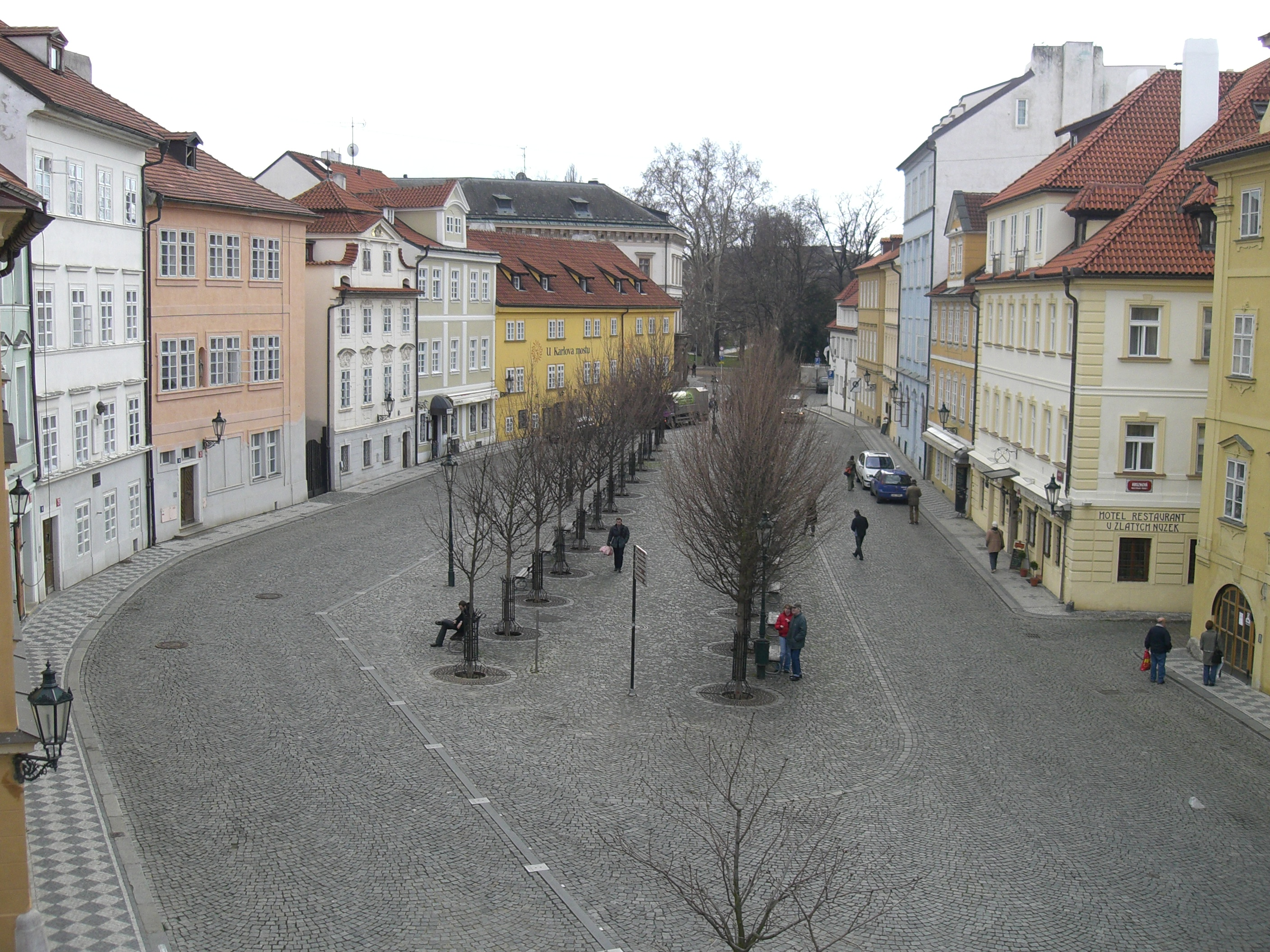 Kapma island in Prague, 9. March 2007